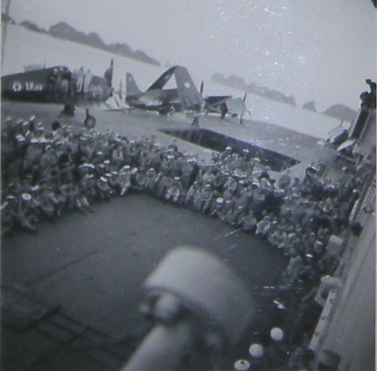 Roland Toutain performs his show on the fly deck of the aircraft carrier Arromanches in Ha Long Bay in 1952